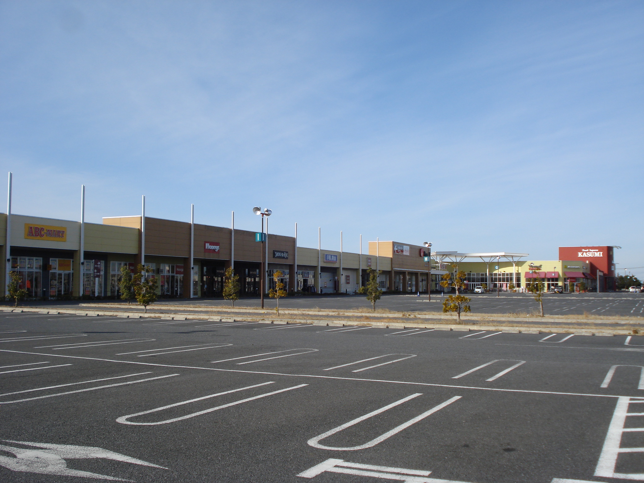 Vivamall Kazo ichibangai building in Kazo City, Saitama Prefecture, Japan